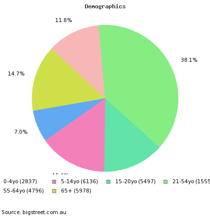 Demographic graph of caboolture 2011